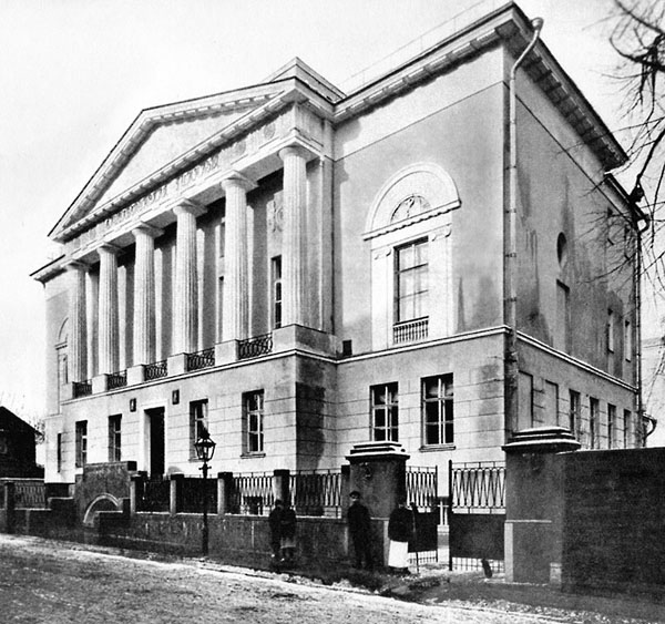 Moscow, School in Kazenny Lane, by Ivan Rerberg, 1912. See also 2007 photo